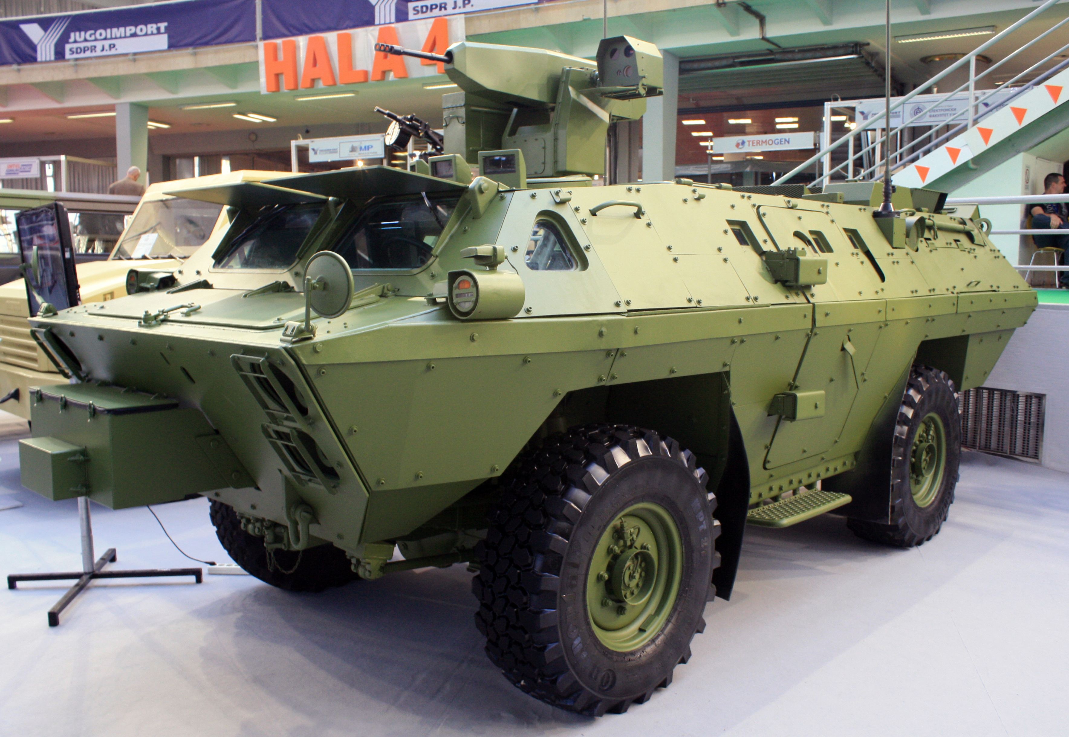 BOV M11 armored reconnaissance vehicle based on BOV developed by Yugoimport SDPR on display at "Partner 2013" military fair.